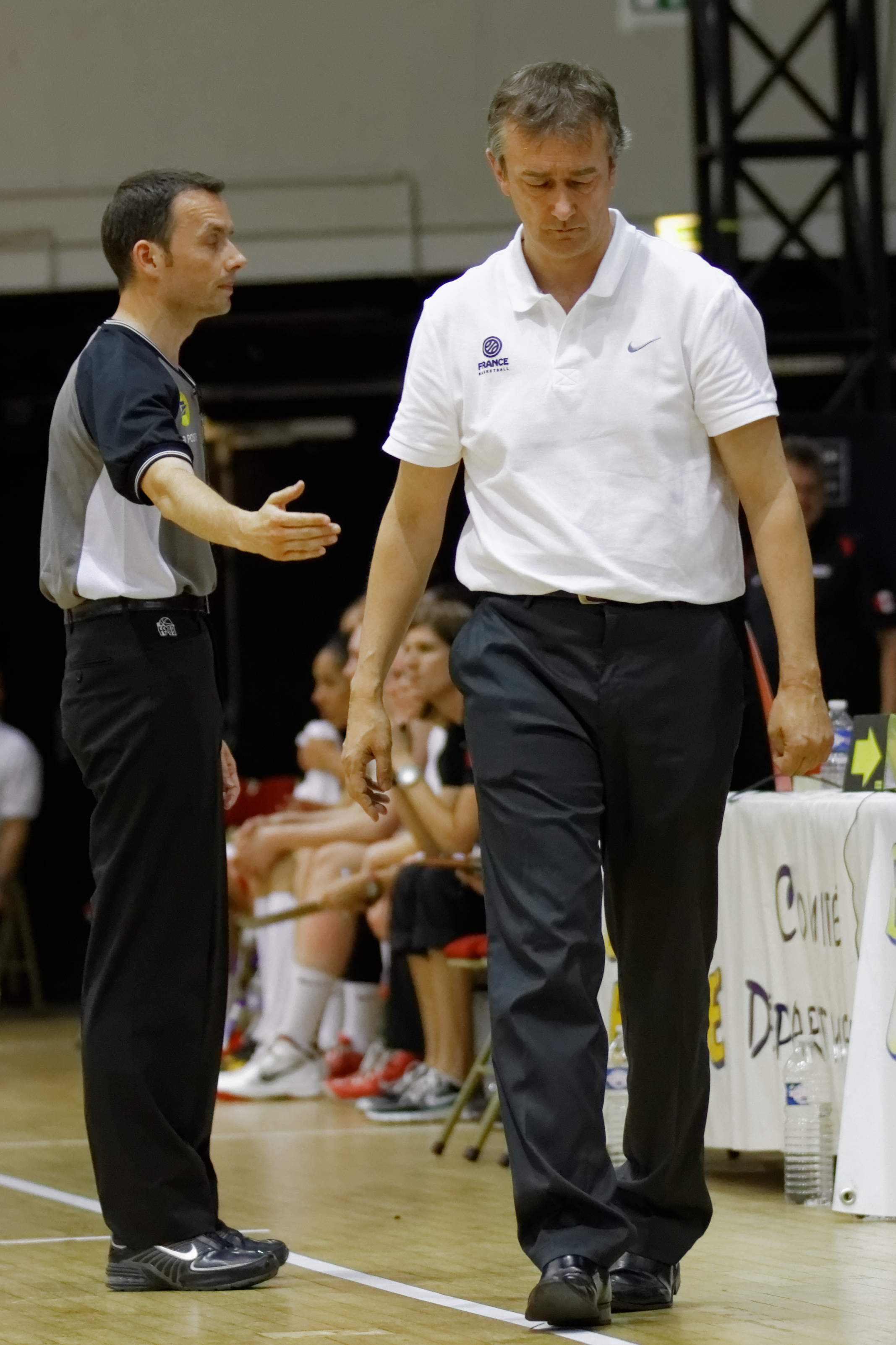 EuroEssonne, France - Canada, 7 June 2013.